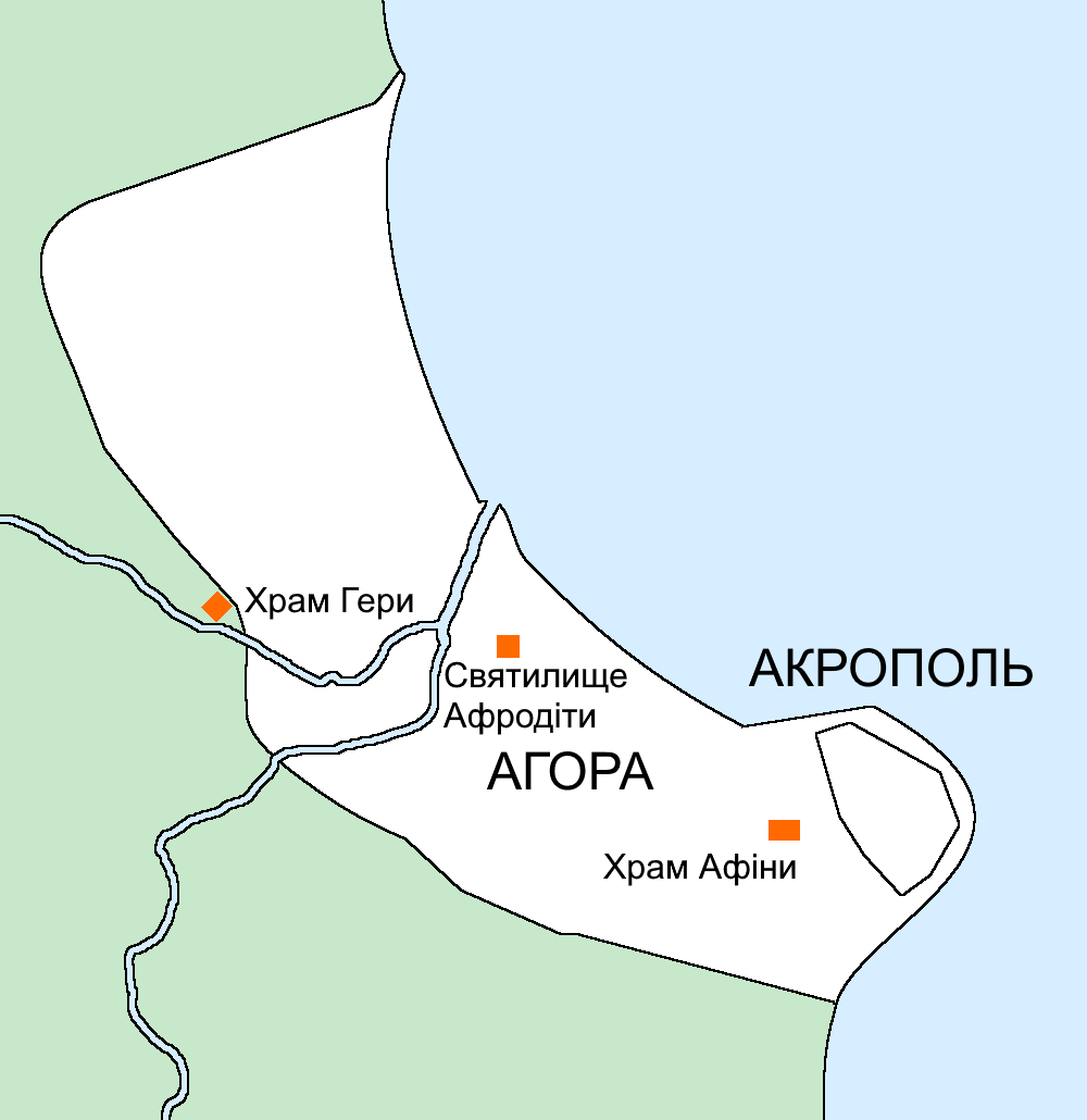 Map of Kroton in Classical Time